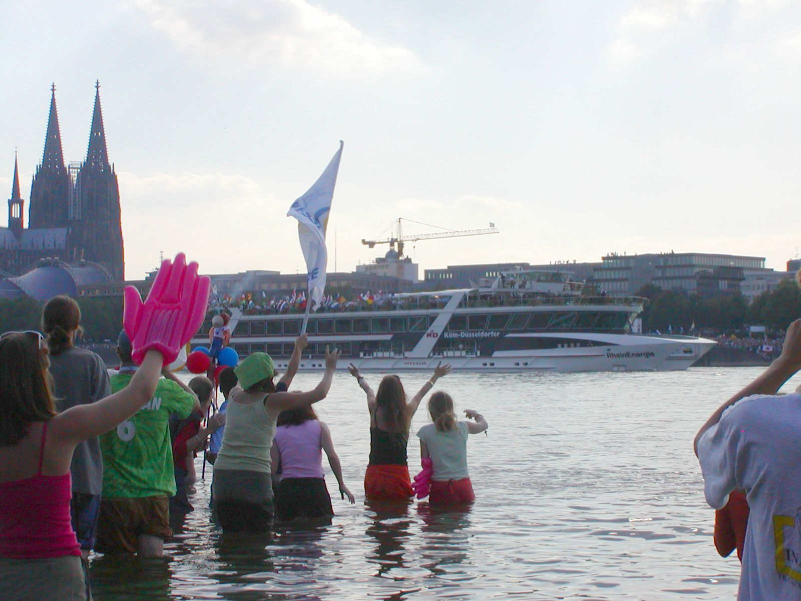 Cheering pilgrims wade into the Rhine as the pope travels down the river by boat (Cologne, Germany)